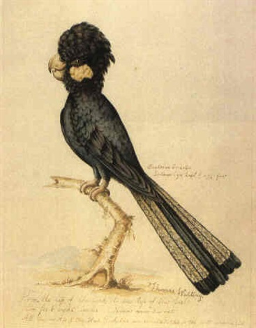 Pen and Ink and Watercolor; 28 x 21 cm.